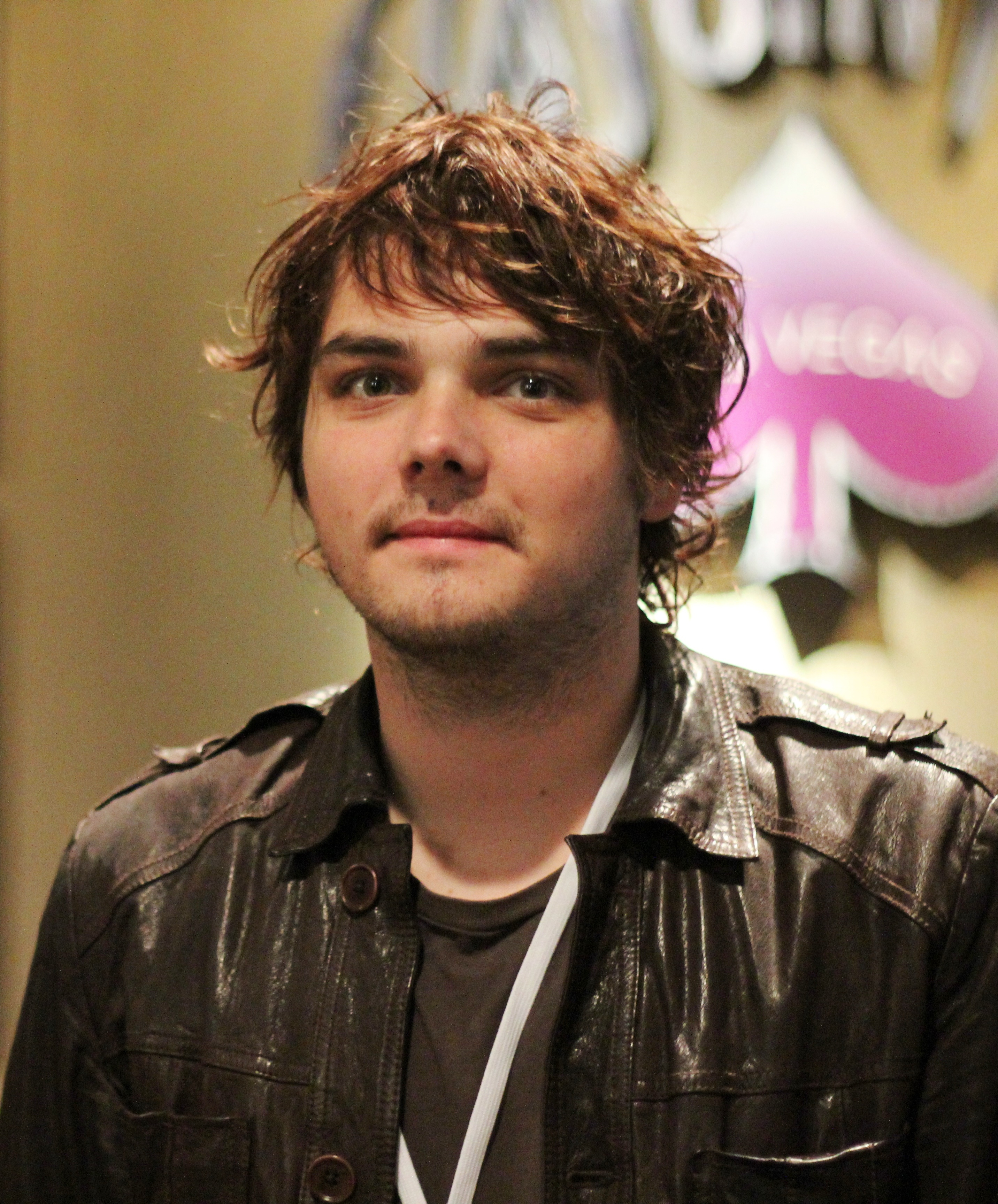 My Chemical Romance singer Gerard Way in 2012, at the MorrisonCon comic convention